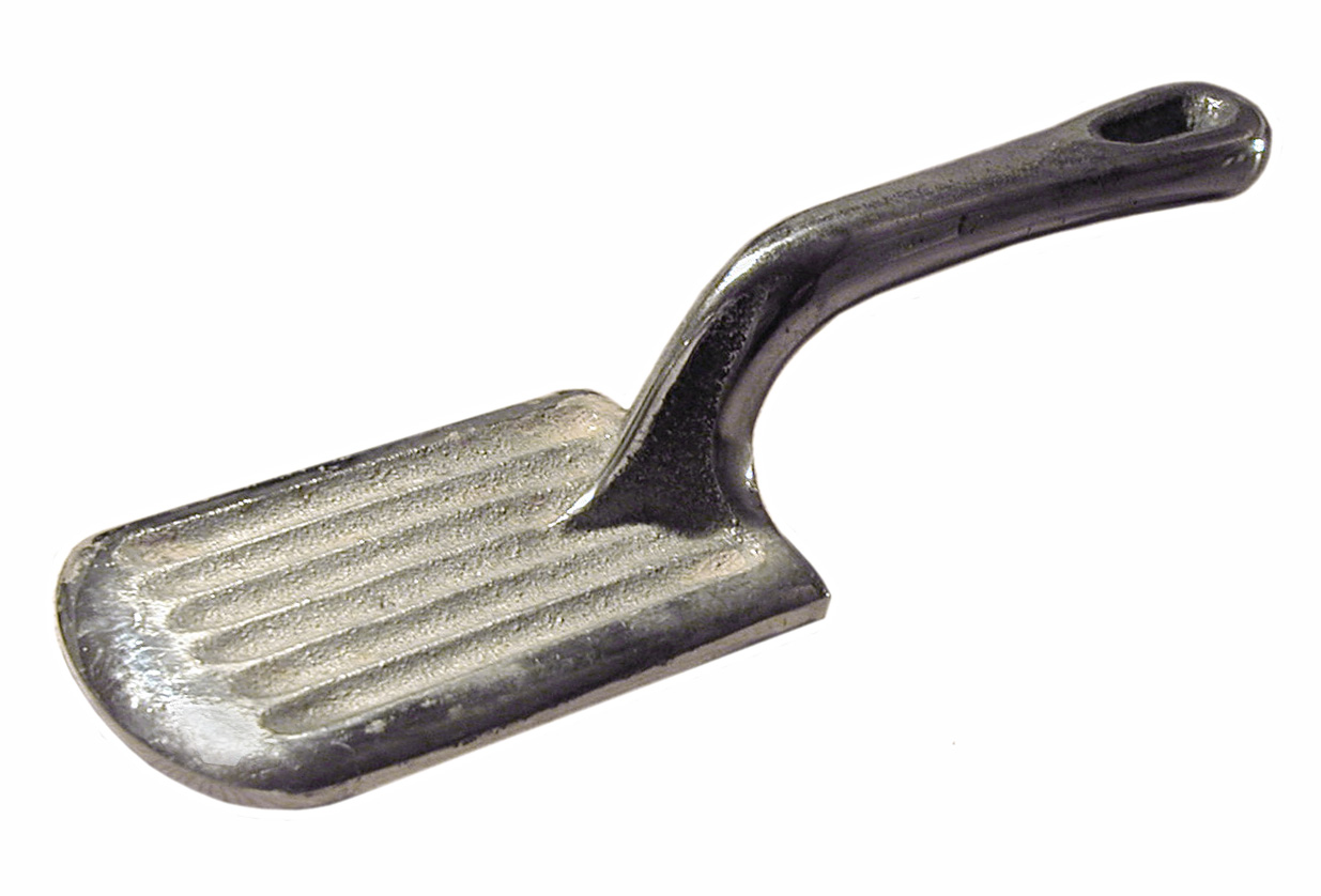 Meat-mallet from Vienna (Austria)